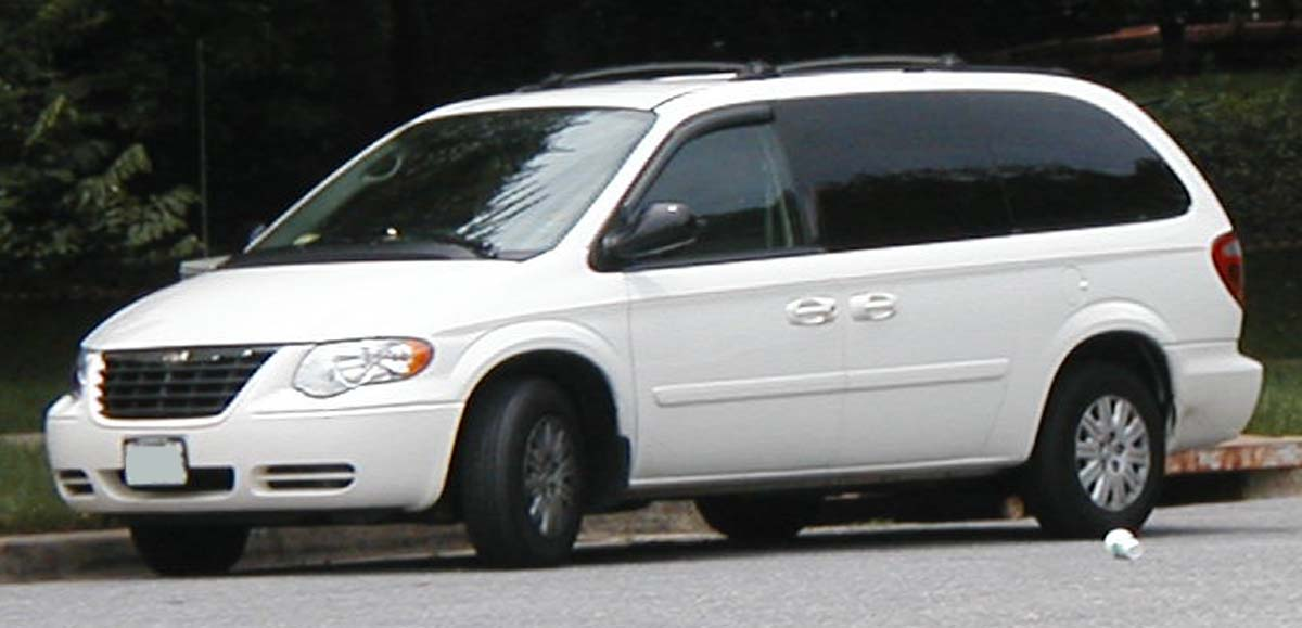 2005-2006 Chrysler Town & Country LWB photographed in USA.